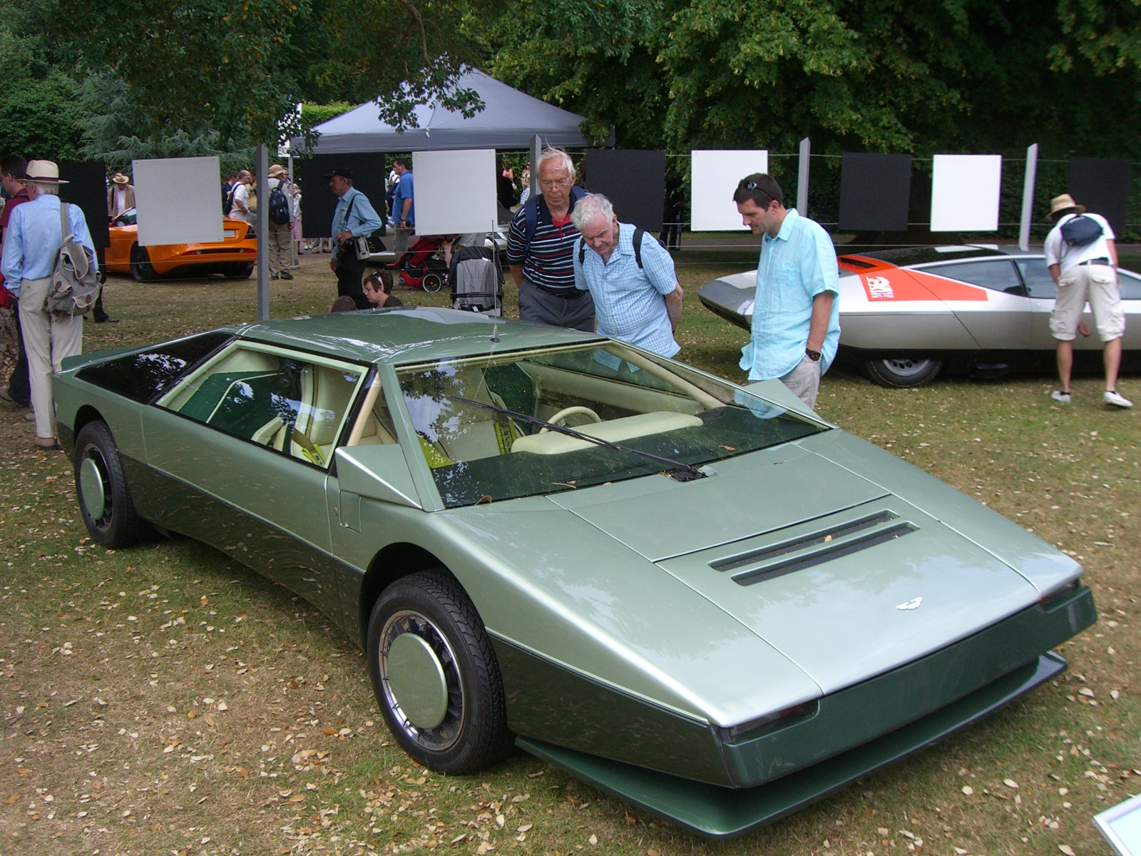 700bhp twin-turbo V8